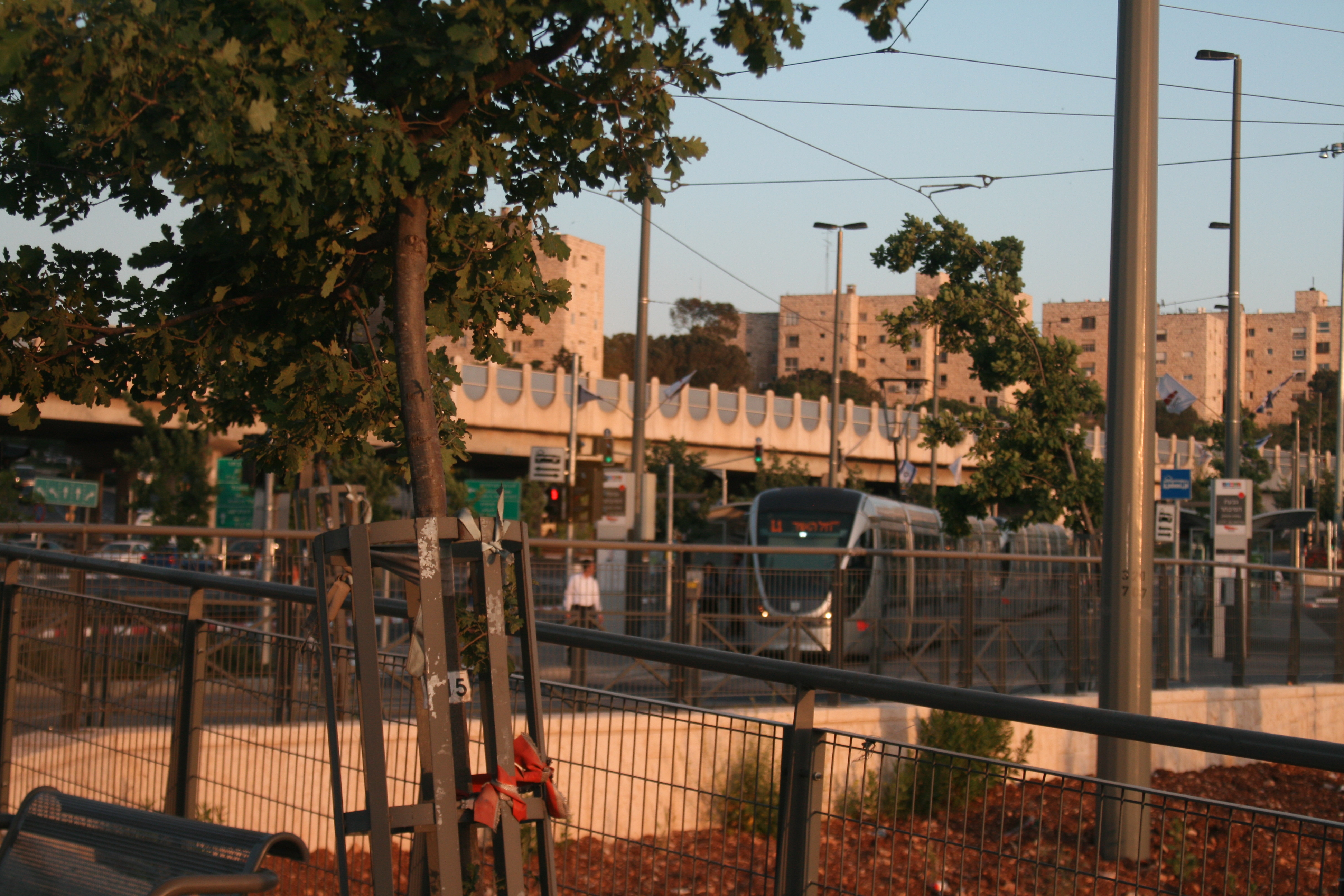 Jerusalem, light rail station "גבעת המבתר" (Givat haMivtar) - May 2013 trip to Jerusalem, Behold the Man Diocese of Southwest Florida Jerusalem